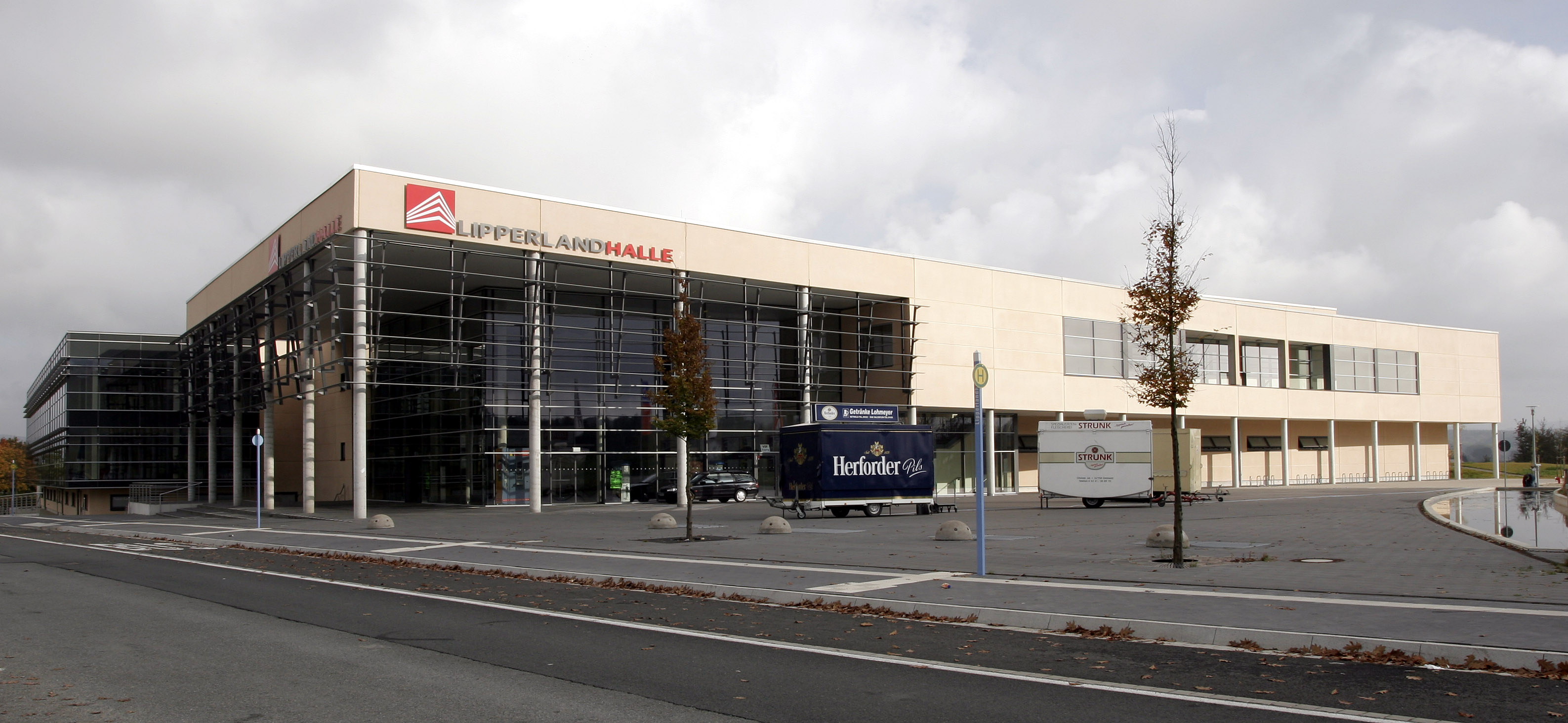 The Lipperlandhalle (sports arena) in Lemgo (Germany)